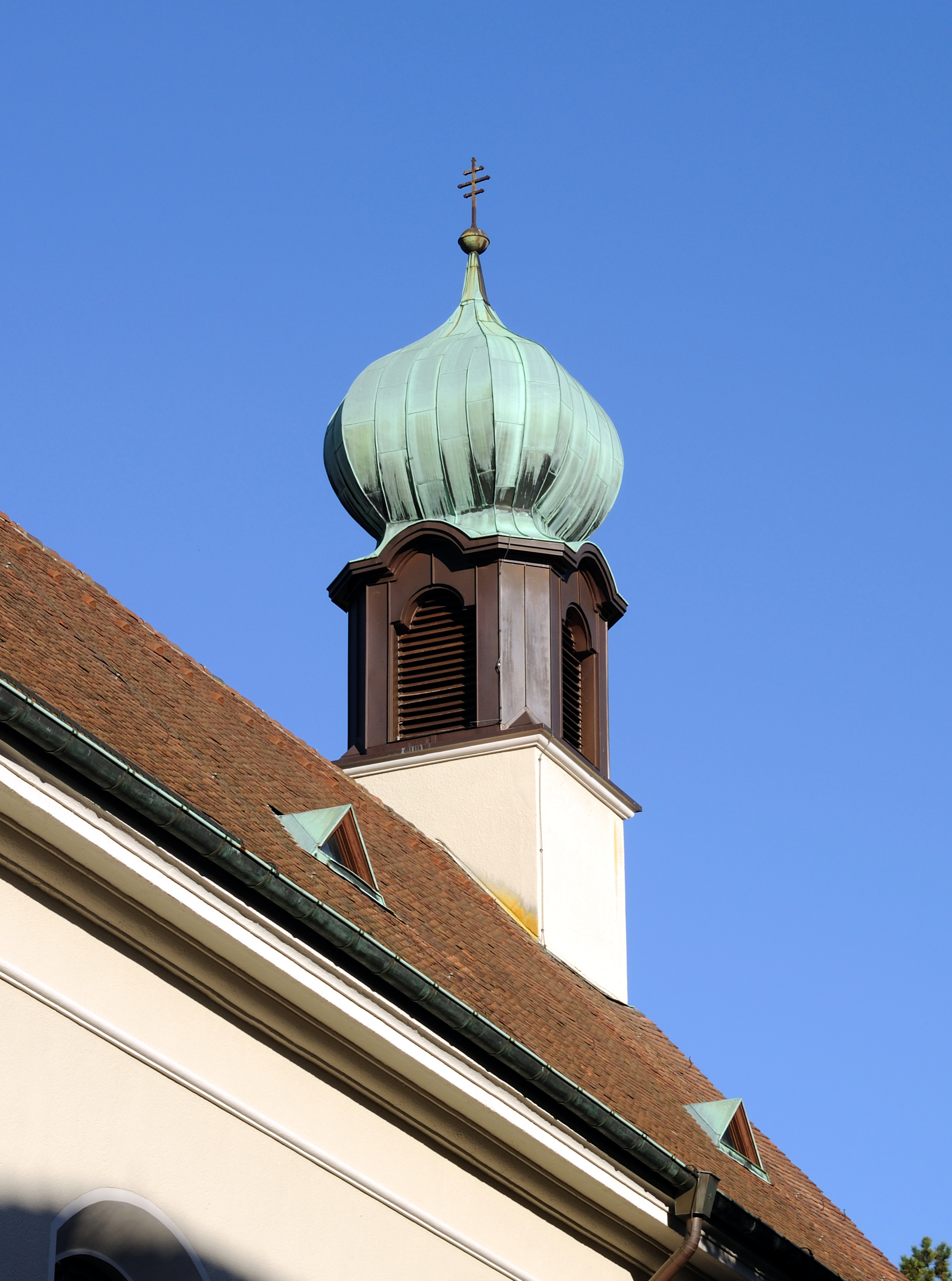 Rheinfelden-Herten: Saint Josephs Church, bell tower